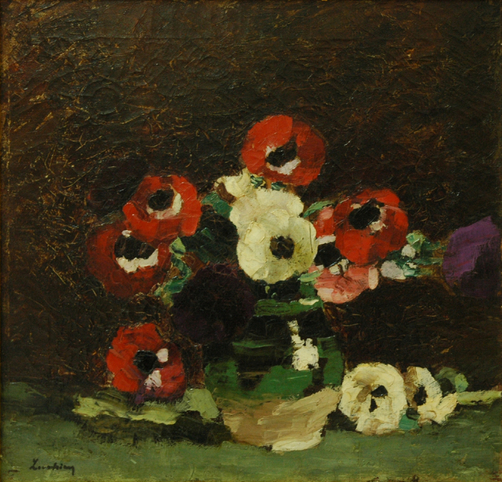 Anemones - oil on canvas